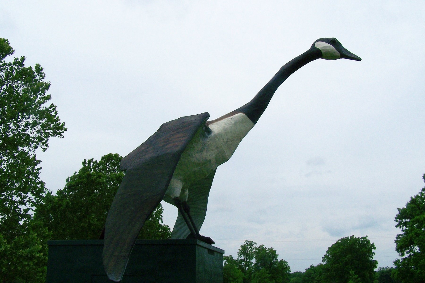 Maxie the Goose, a large statue of a Canadian Goose on display in Sumner, Missouri. The statue commemorates the Sumner areas status as one of North America's prime goose hunting locations.